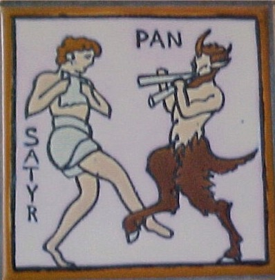 J.W. Sexton High School, Interior, Wall Tile, Pan and Satyr